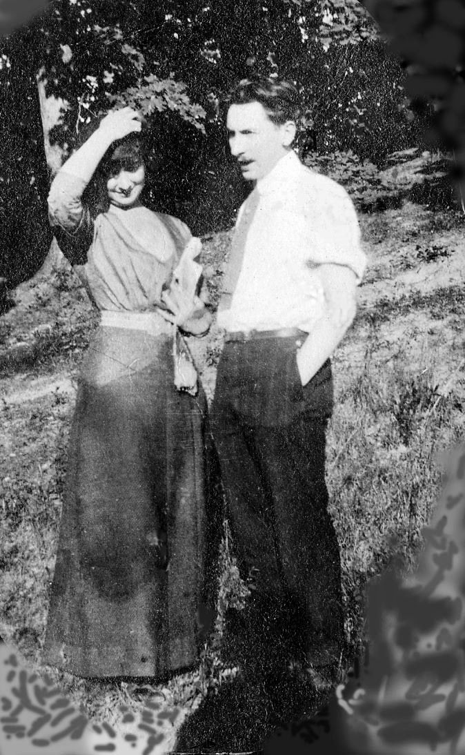 Leopold and wife Helen Seyffert, Seal Harbor, Maine 1916